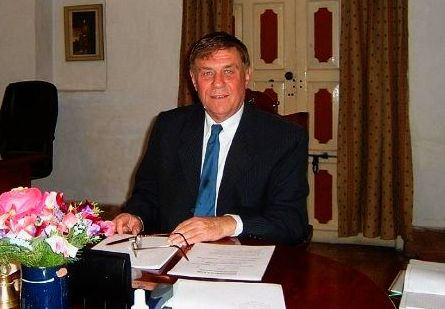 Dr. David L Gosling at Edwardes College, Peshawar, Pakistan.